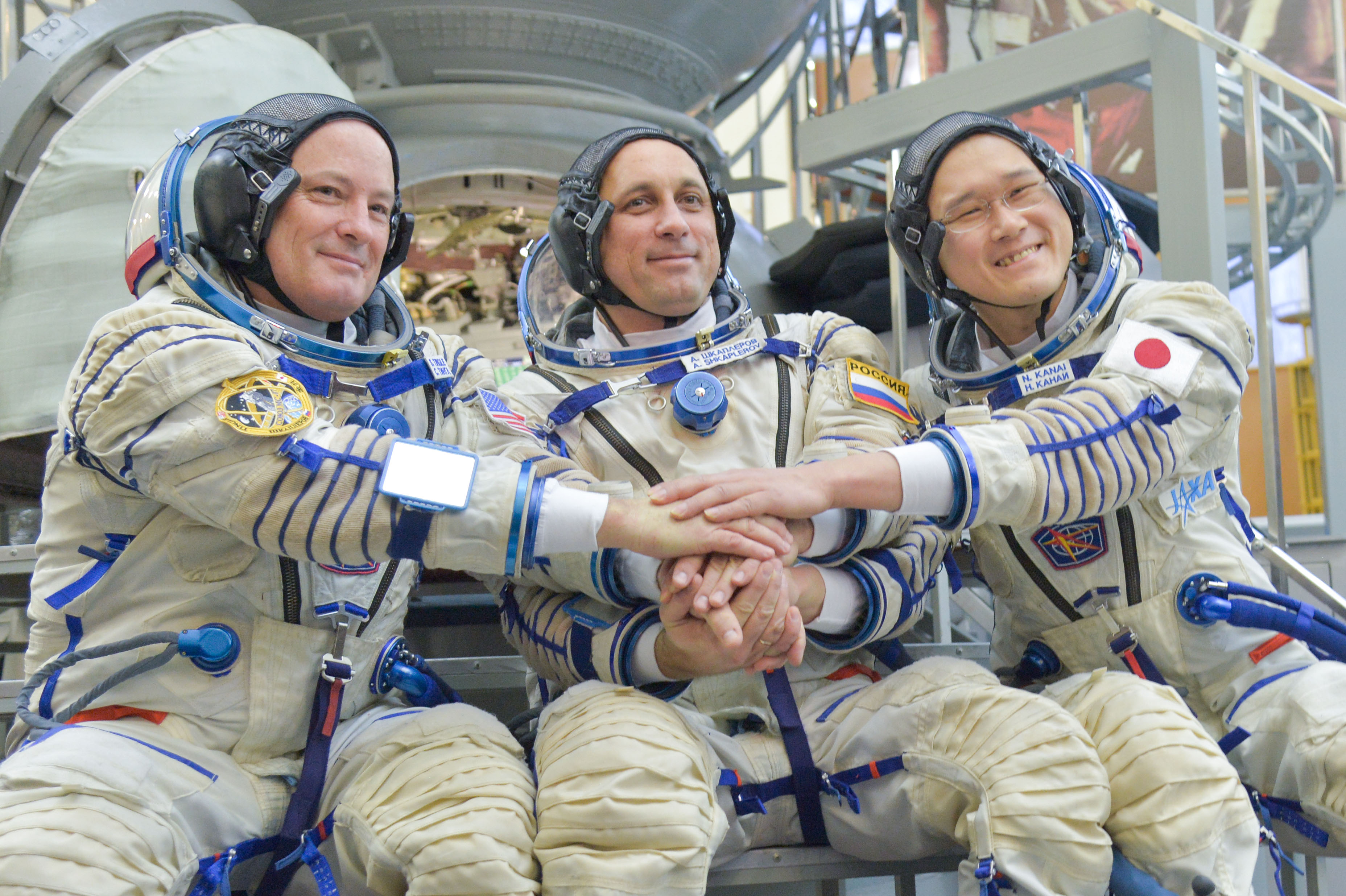 At the Gagarin Cosmonaut Training Center in Star City, Russia, Expedition 54-55 prime crewmembers Scott Tingle of NASA (left) Anton Shkaplerov of the Russian Federal Space Agency (Roscosmos, center) and Norishige Kanai of the Japan Aerospace Exploration Agency (JAXA, right) pose for pictures Nov. 29 in front of a Soyuz spacecraft simulator as part of their final crew qualification exam activities. They will launch Dec. 17 on the Soyuz MS-07 spacecraft from the Baikonur Cosmodrome in Kazakhstan for a five-month mission on the International Space Station.